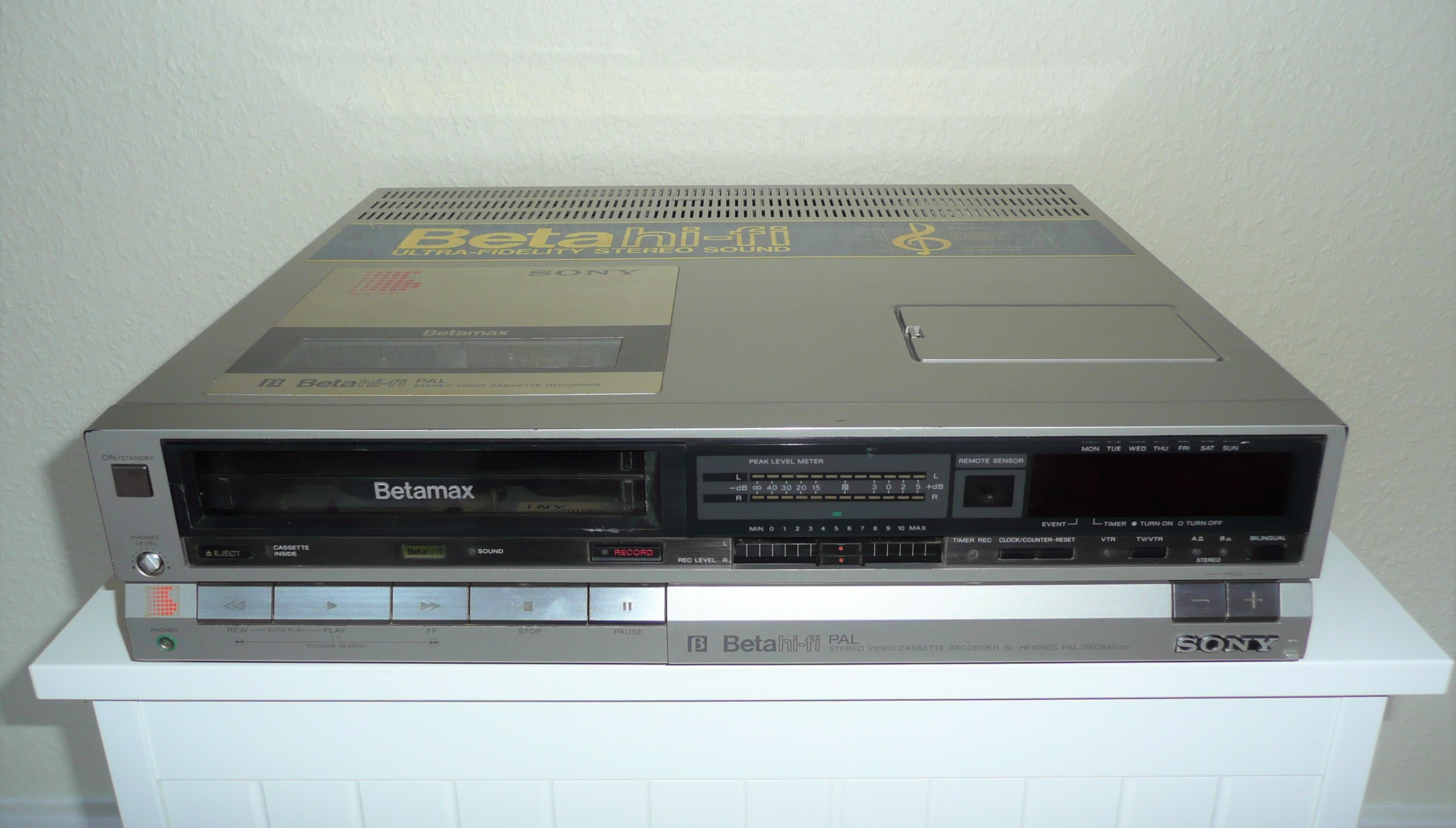 Sony SL-HF100. A Hi-Fi stereo Betamax VCR.